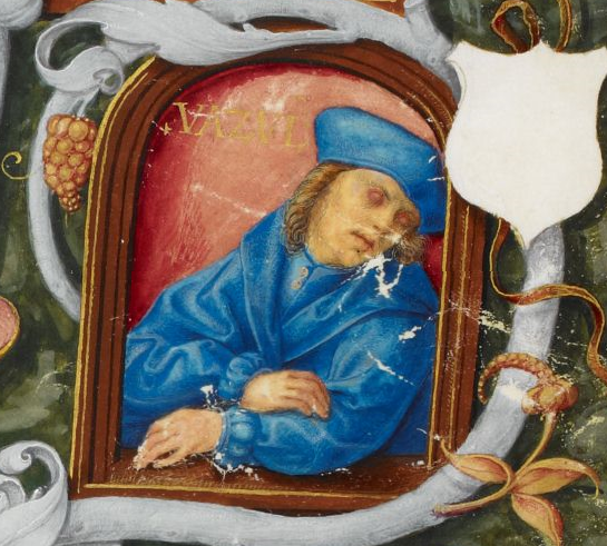 Vazul (Basil) of Hungary, duke of Nitra and son of Michael of Hungary